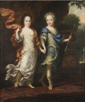 Portrait of the future Karl XII of Sweden and his siter Princess Hedvig Sofia